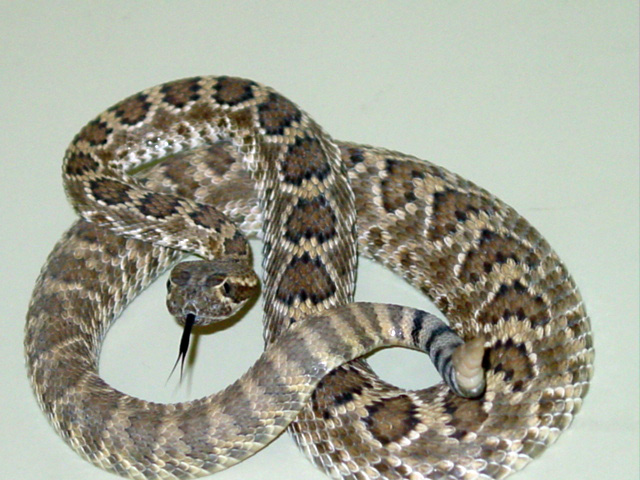 Juvenile Mojave Rattlesnake